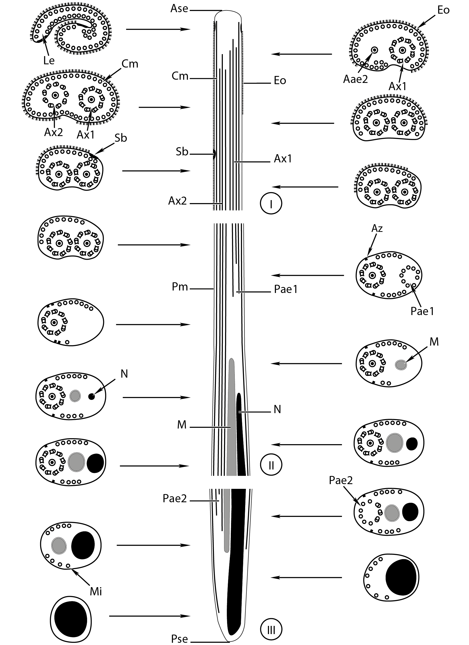 Figure 6 of paper A schematic reconstruction of the mature spermatozoon of Bucephalus margaritae. Aae2 = anterior extremity of the second axoneme, Ase = anterior spermatozoon extremity, Ax1 = first axoneme, Ax2 = second axoneme, Az = attachment zones, Cm = cortical microtubule, Eo = external ornamentation, Le = lateral expansion, M = mitochondrion, Mi = microtubule, N = nucleus, Pm = plasma membrane, Pae1 = posterior extremity of the first axoneme, Pae2 = posterior extremity of the second axoneme, Pse = posterior spermatozoon extremity, Sb = spine-like body.